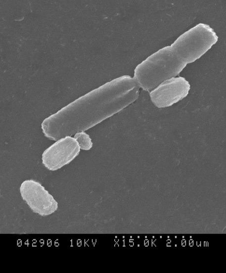 Electronic Microcospy of B. subtilis R0179. EM image courtesy of Dr. Sandy Smith, Dept of Food Science, University of Guelph, Ontario, Canada